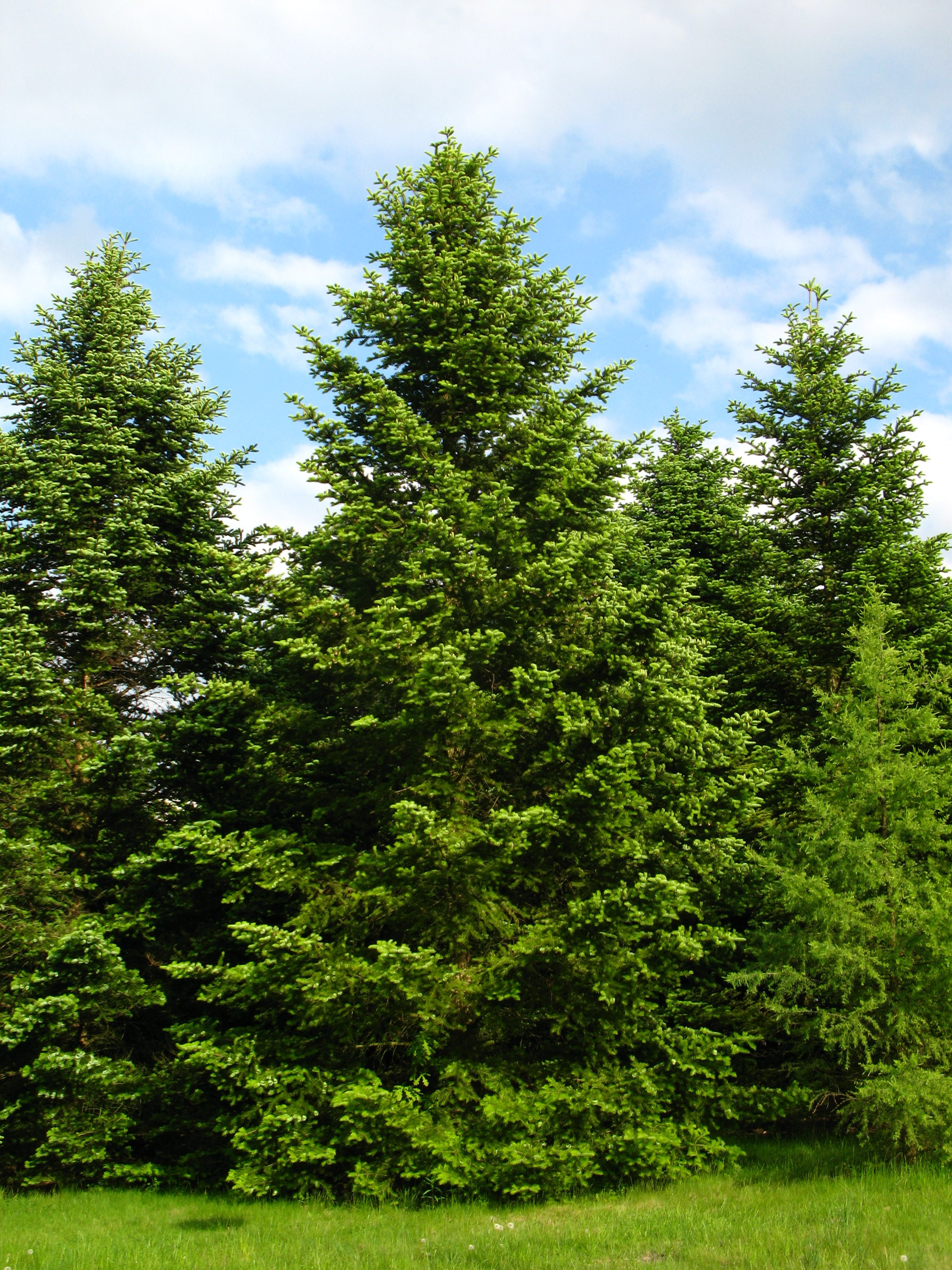 Young Abies nordmanniana Abies holophylla in PAN Botanical Garden in Warsaw